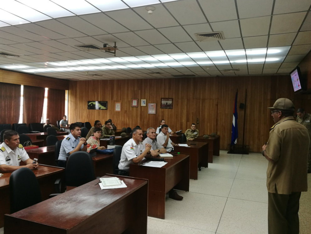 Militares bolivianos, Juan Ramón Quintana y Helena Argirakis en Cuba